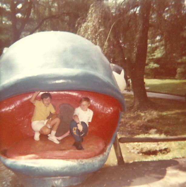 Jose Luis Behar (left) and friend playing on Willie the Whale at the Enchanted Forest (Howard County, Maryland) in 1972.